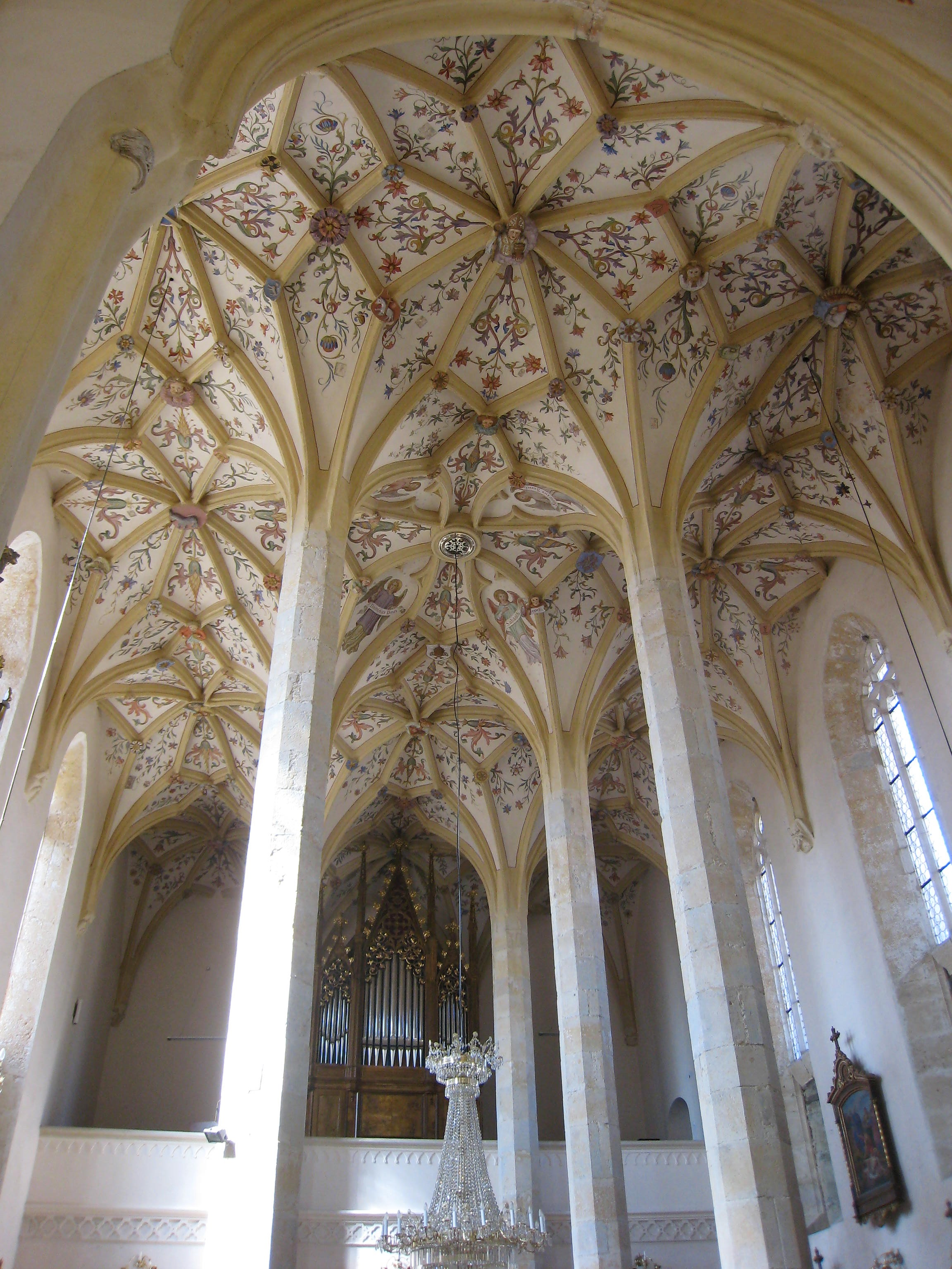 The structure of the stellar wault is well seen